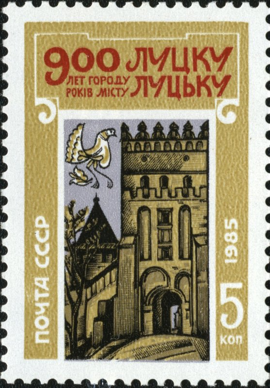 A USSR stamp, 900th Anniversary of Lutsk. Date of issue: 14th September 1985. Designer: A. Kalashnikov. Michel catalogue number: 5549. 5 K. multicoloured. Lutsk castle.